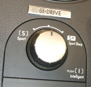 photo of Subaru SI-Drive control knob